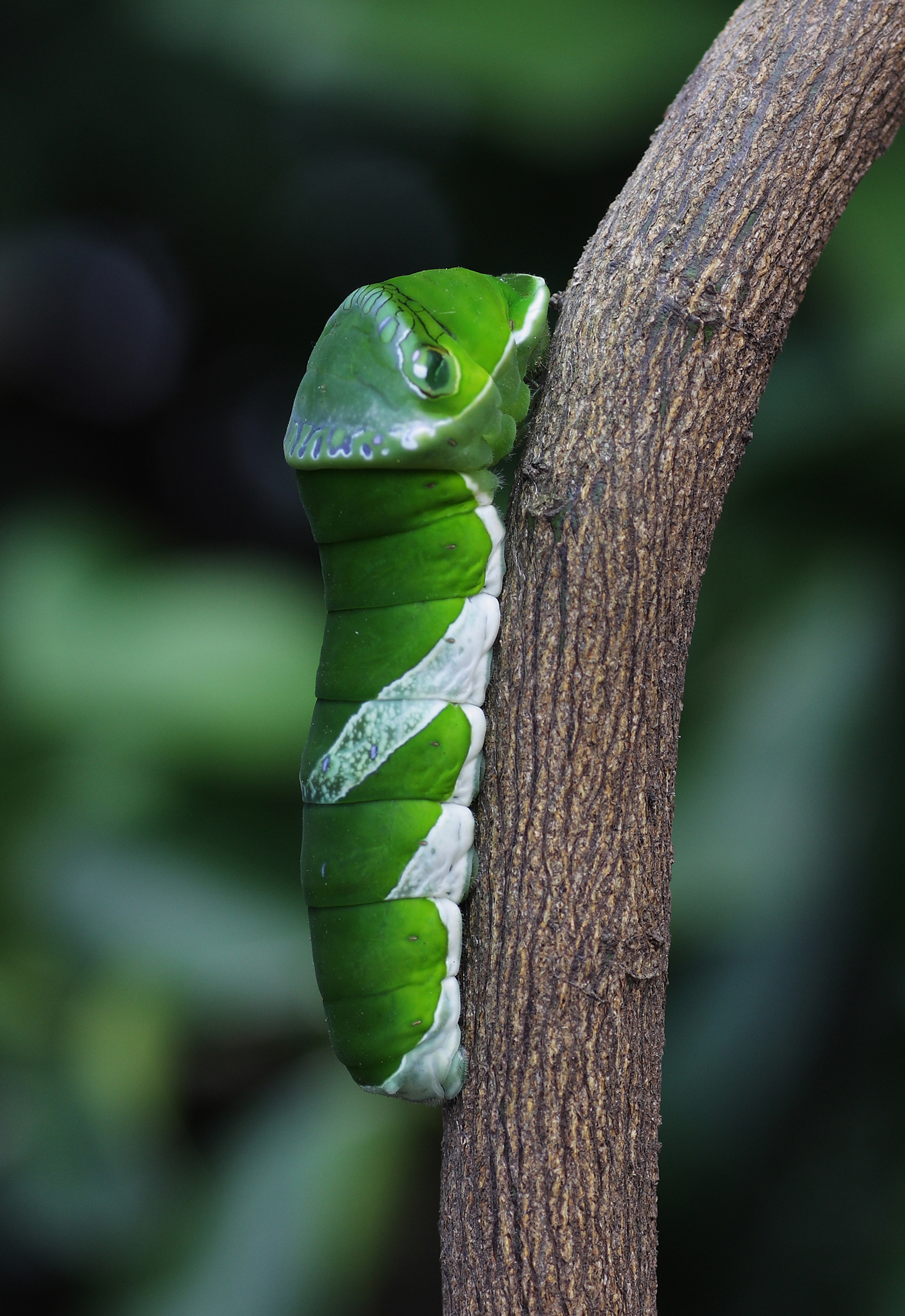 Papilio memnon caterpillar.